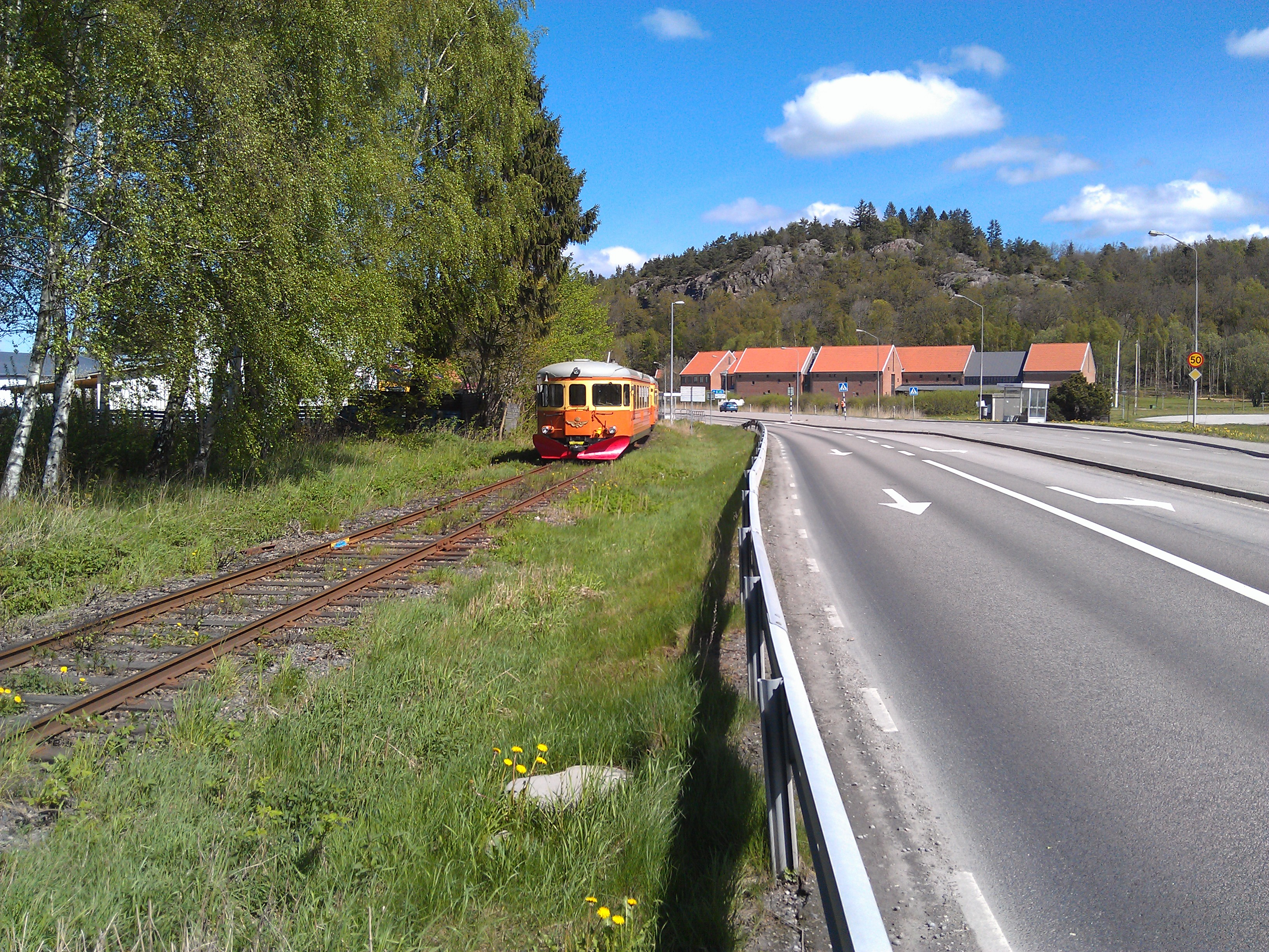 In Lödöse, Sweden. Museum charter train.